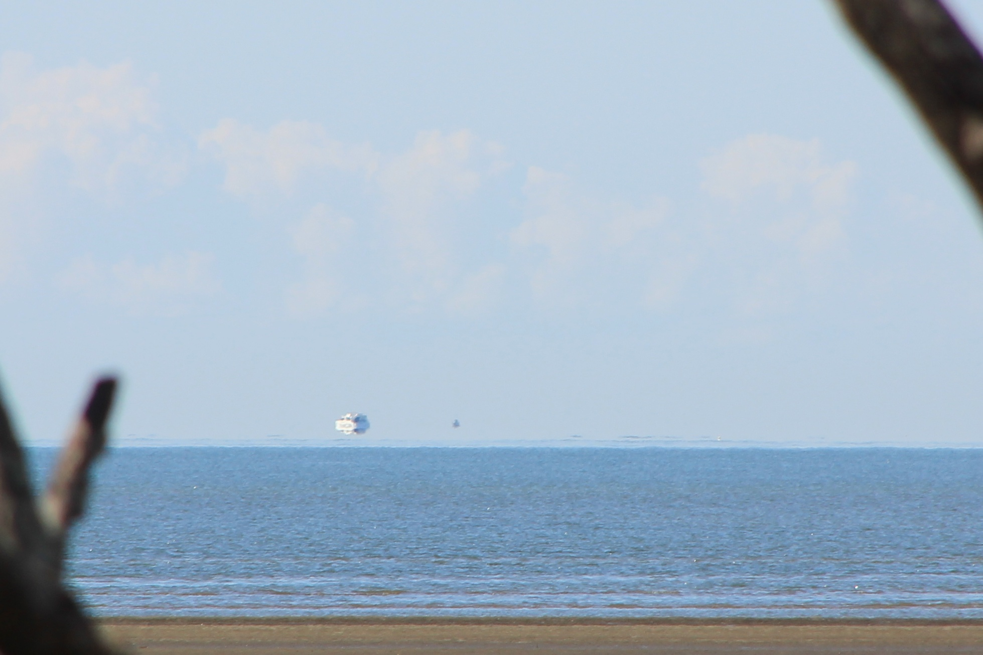 An example of picture showing a ship that appears to be floating above the horizon.